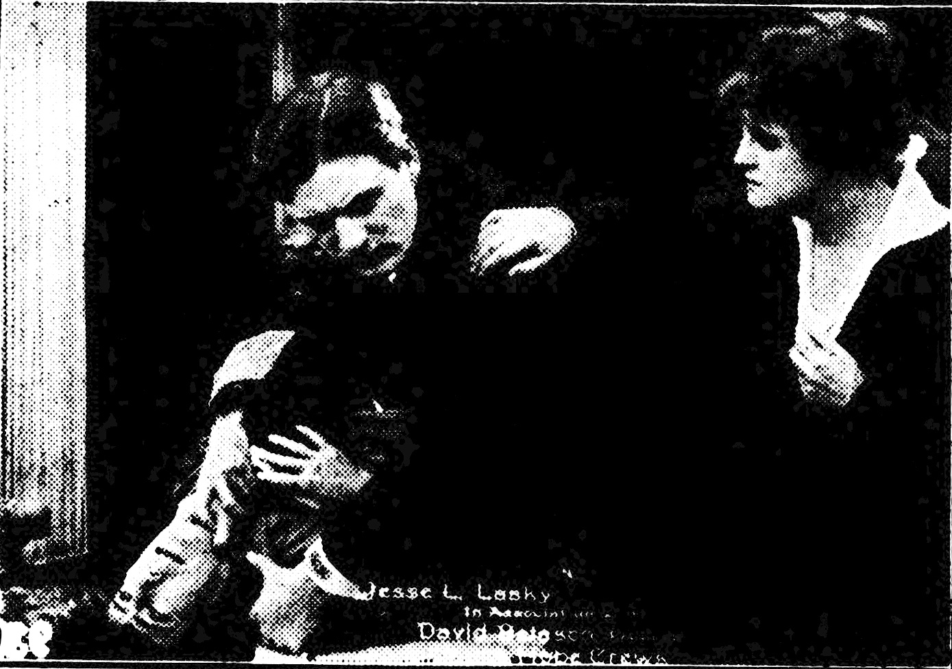 The Fighting Hope is a 1915 silent film drama directed by George Melford and starring Thomas Meighan and Laura Hope Crews, both in their film debuts. This is a scene from the film published in a newspaper.